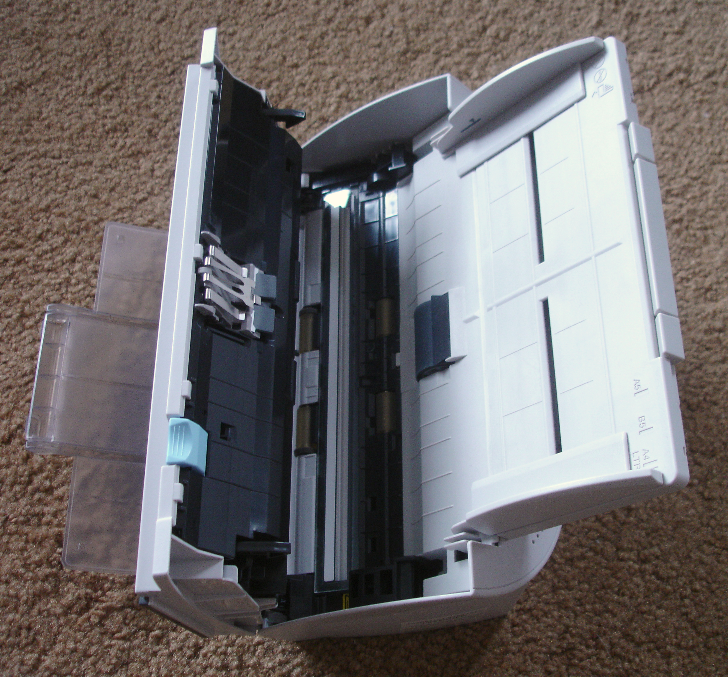 Fujitsu (PFU Limited) ScanSnap document scanner, model fi-5110C, duplex scanner open